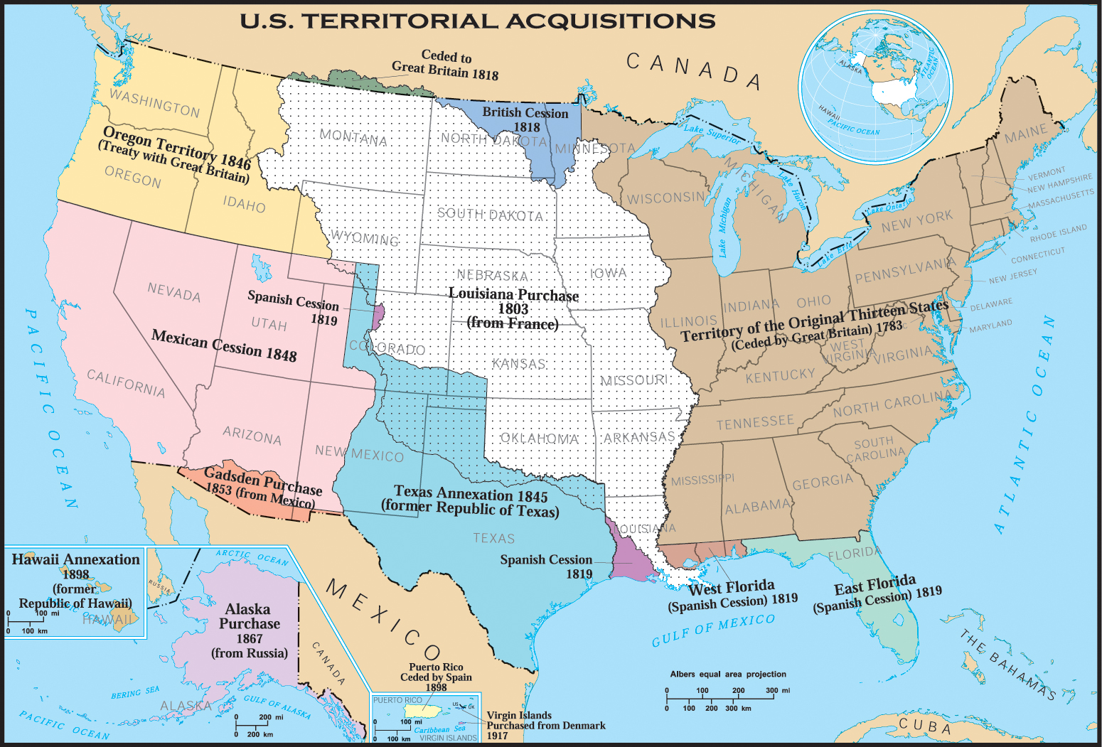 United States historic territory acquisitions. Thirteen Colonies, Louisiana Purchase, British and Spanish Cession, ect. This map uses incorrect terms in that Great Britain didn't exist as a political entity in 1818 or 1846, having been superseded by the United Kingdom following the Act of Union with Ireland in 1801.